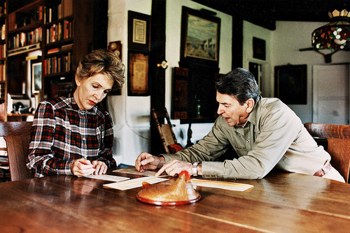 President Ronald Reagan and First Lady Nancy Reagan at their California ranch known as "Rancho del Cielo."